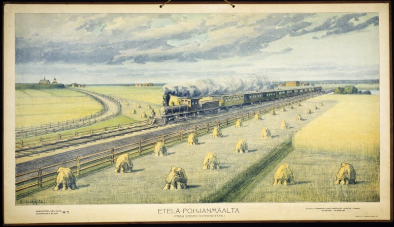 Colorlithograph by Kustaa Heikkilä depicting a train traveling through fields in Western Finland.